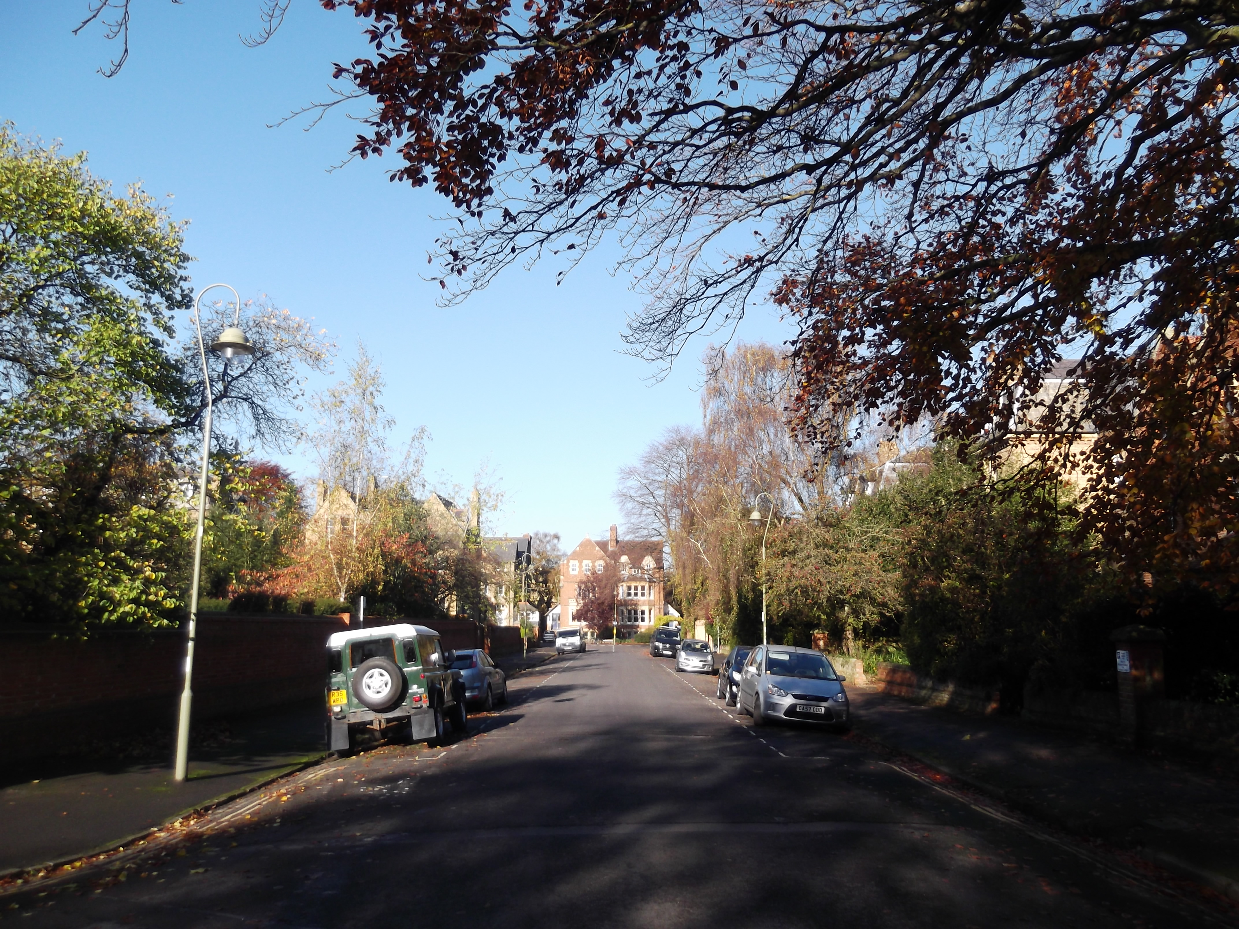 Street in north Oxford, England.